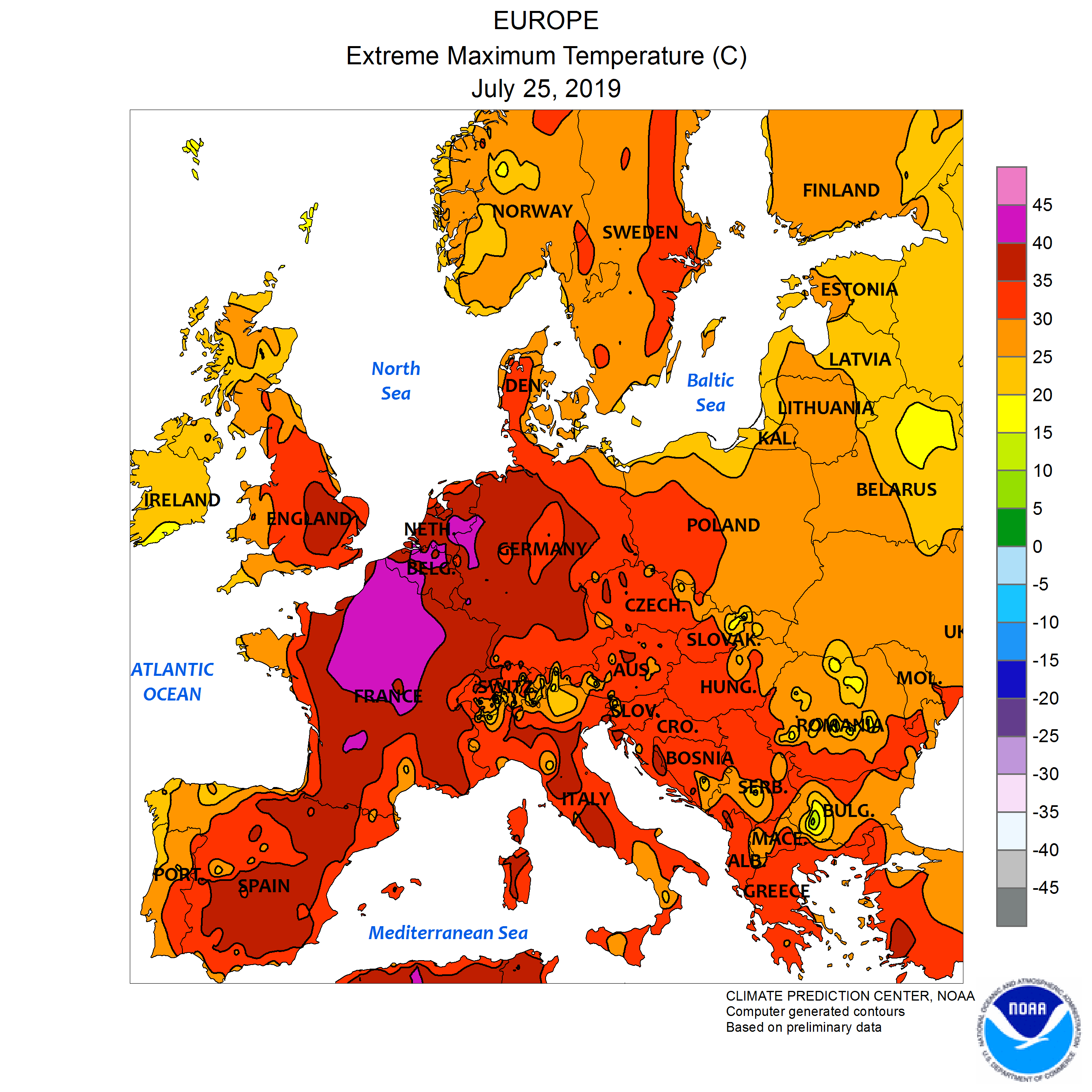 Max temperature across Europe on July 25, 2019